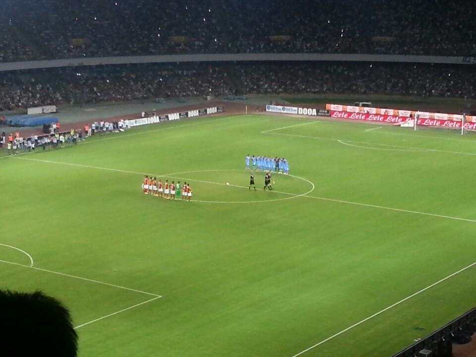 Napoli Cup against GS